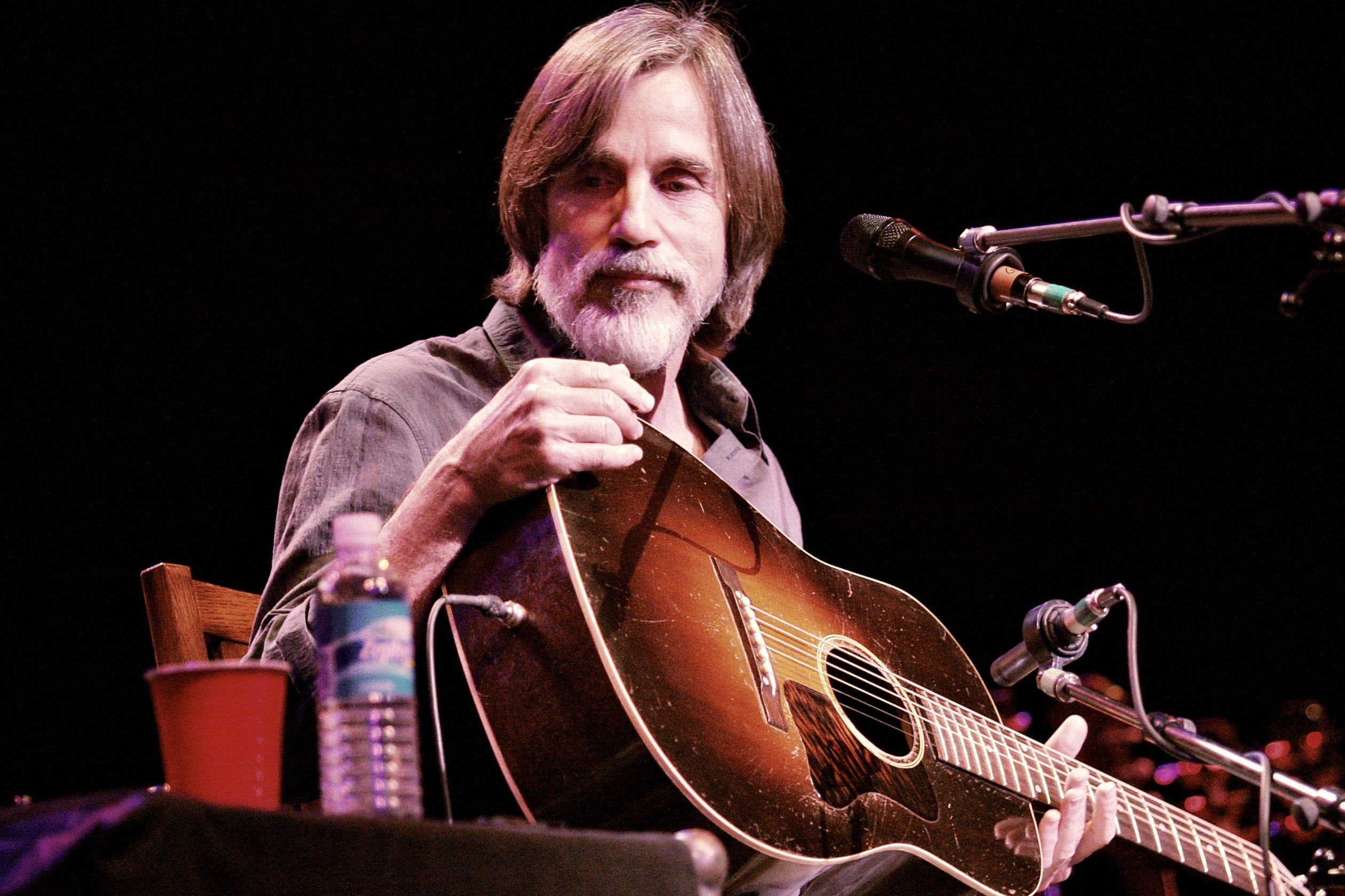 Jackson Browne unplugged and in concert.